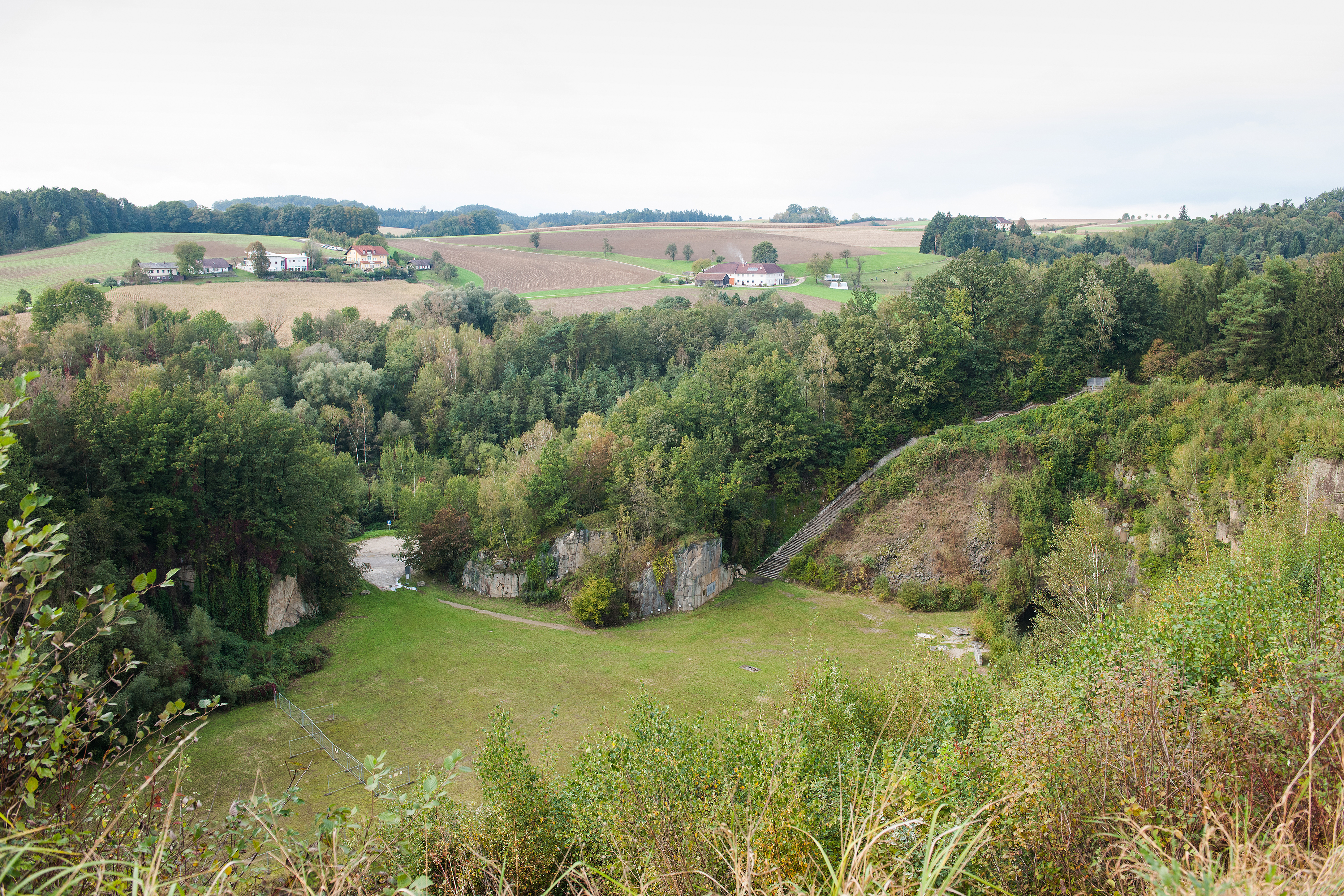 Mauthausen Memorial Dieses Bild wurde anlässlich des österreichischen Tags des Denkmals 2016 in Oberösterreich eingereicht.